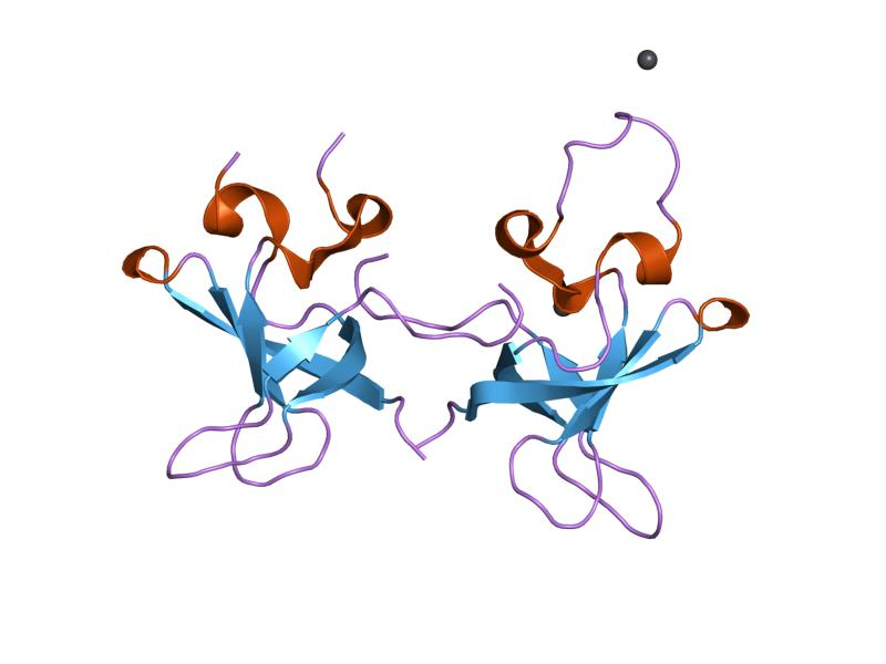 Cartoon representation of the molecular structure of protein registered with 1sn8 code.